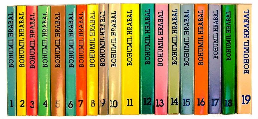 Bohumil Hrabal, Complete works edition in 19 volumes published in the '90s by Pražská imaginace.